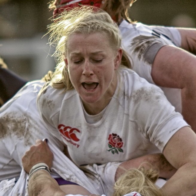 Looks as though Tamara Taylor is suffering as Vicky Fleetwood (16) drives the England girls forward